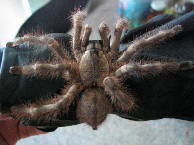 Male Poecilotheria formosa.